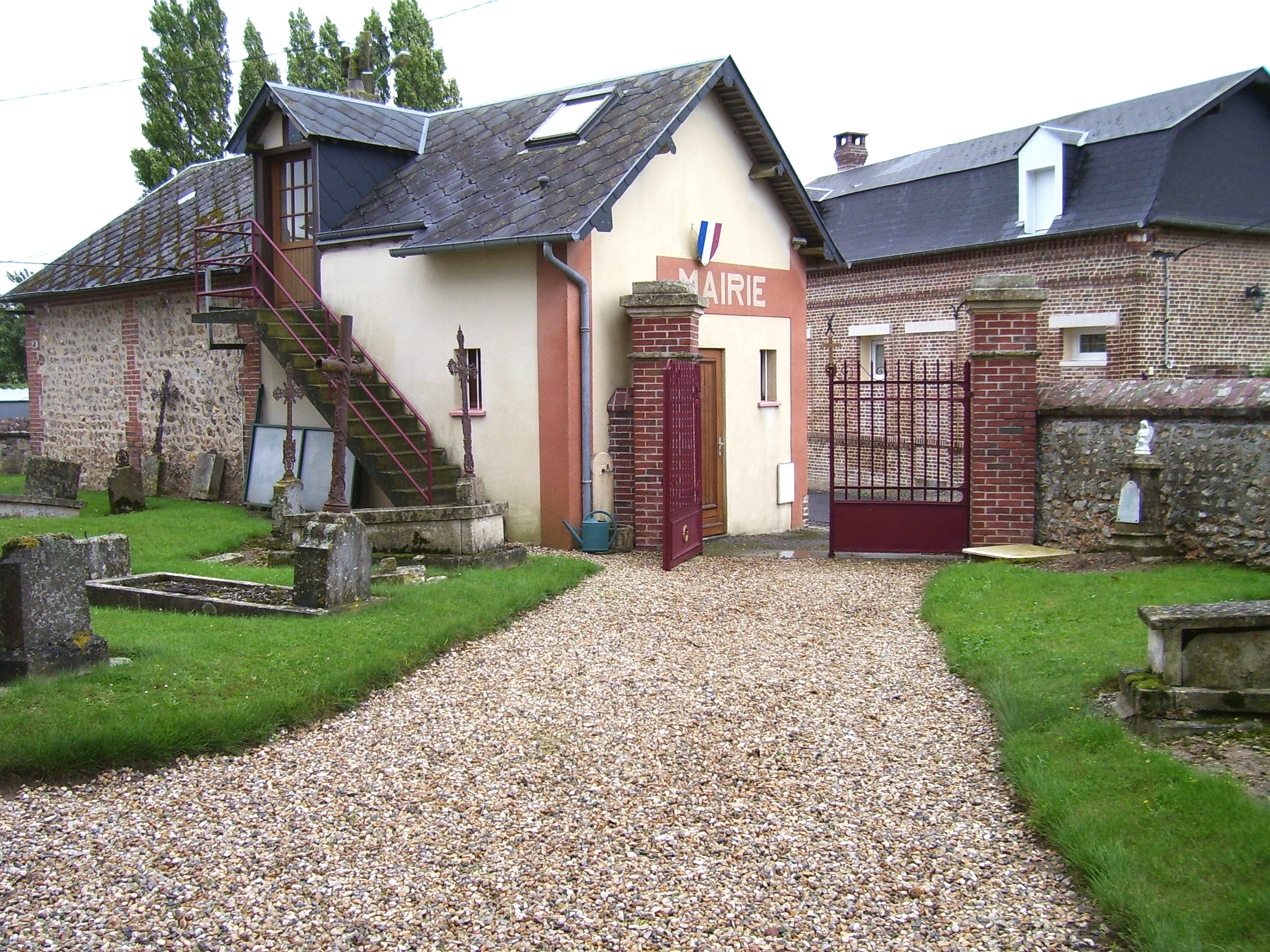 Town hall of Saint-Pierre-de-Salerne (Eure, Haute-Normandie, France).